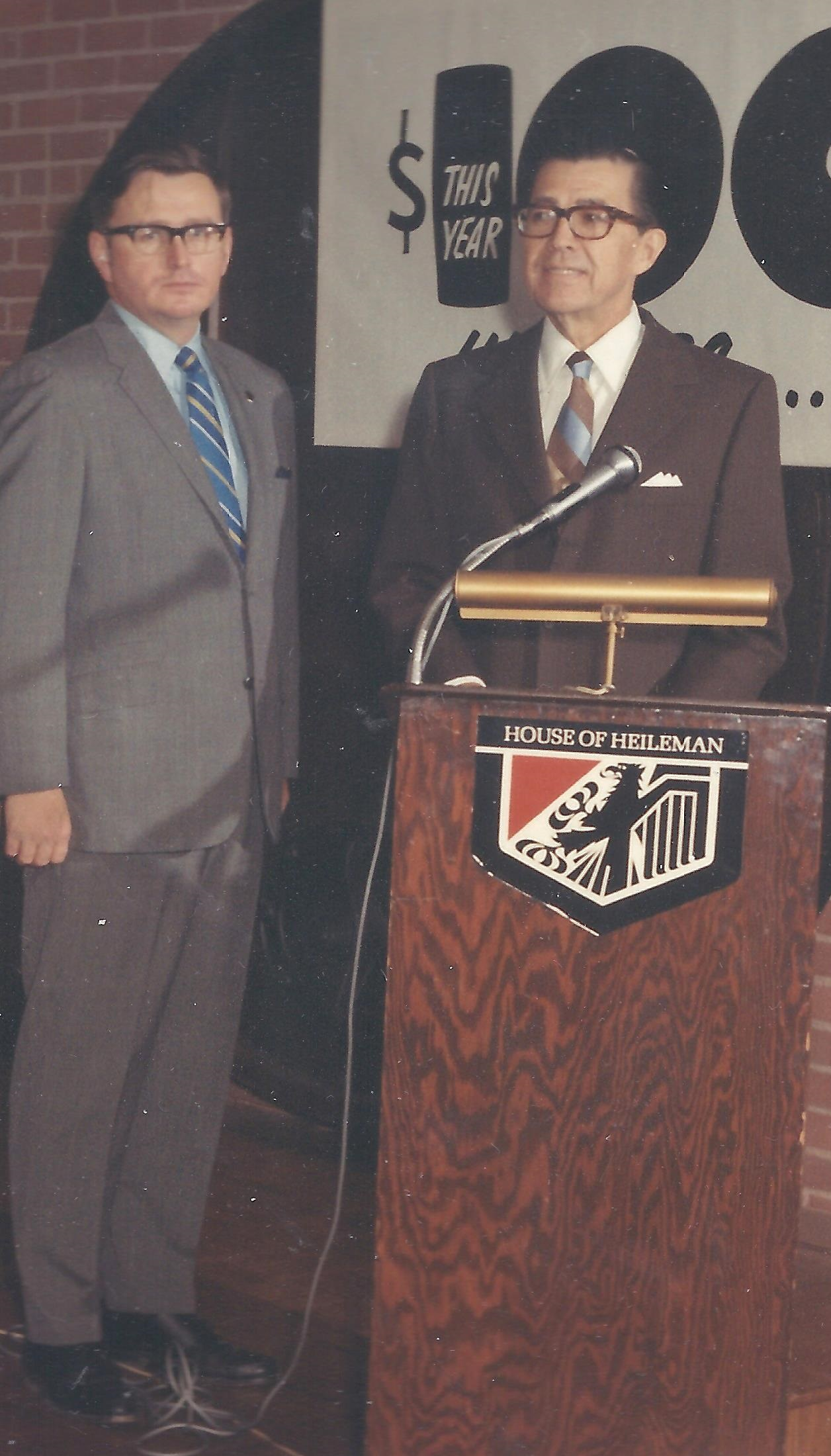 Roy Kumm, President, and Russell Cleary, Vice President, preside over the G. Heileman Brewing Company $100 million in Sales event in 1968.